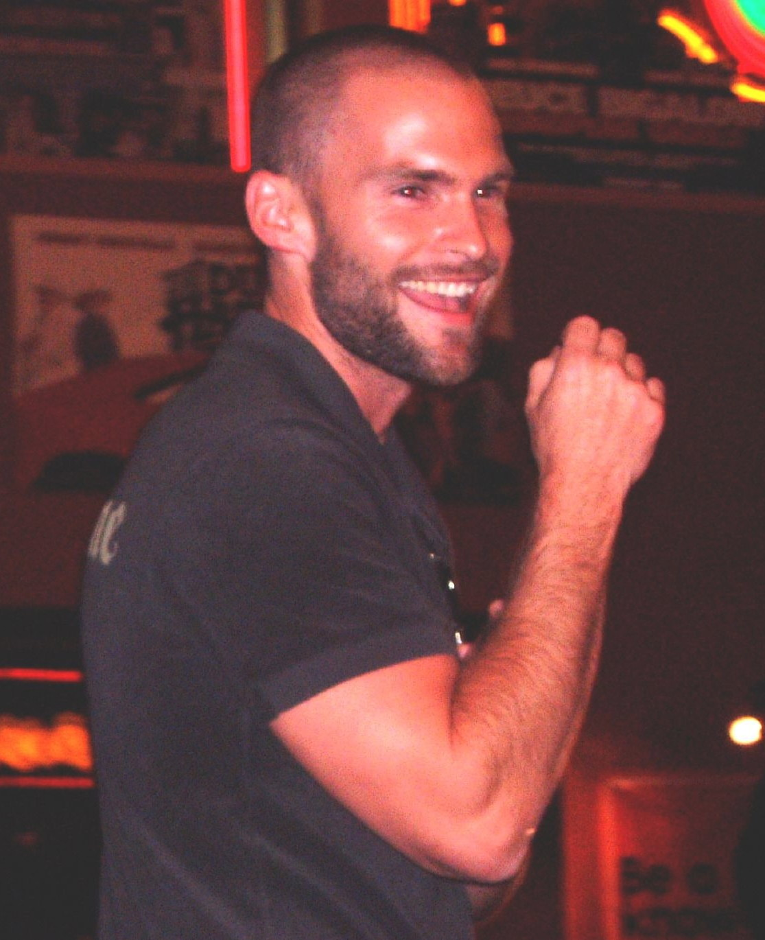 Dukes of Hazzard Premiere, 2005. Seann William Scott